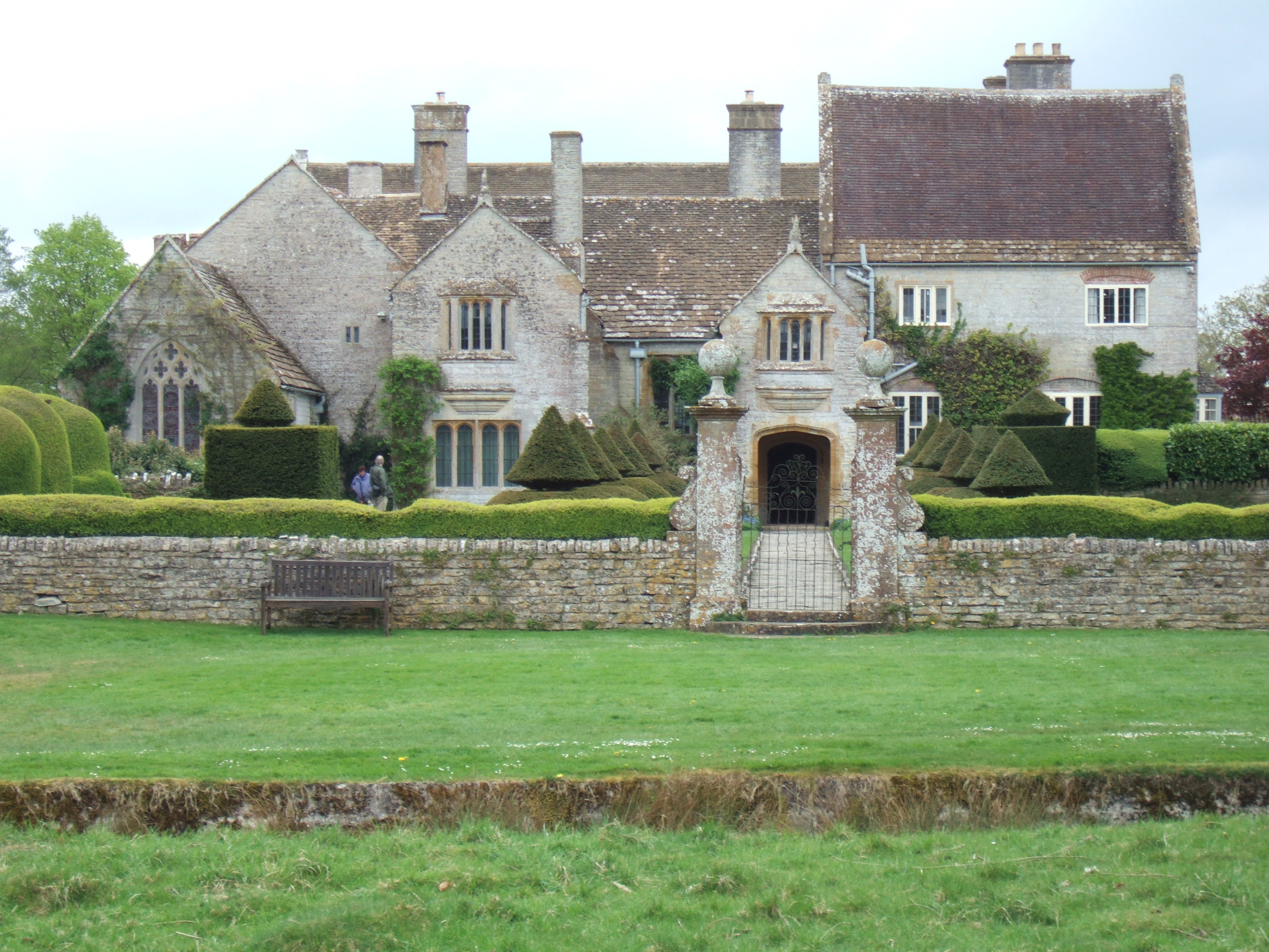 The east front of Lytes Cary from beyond the haha in the parkland